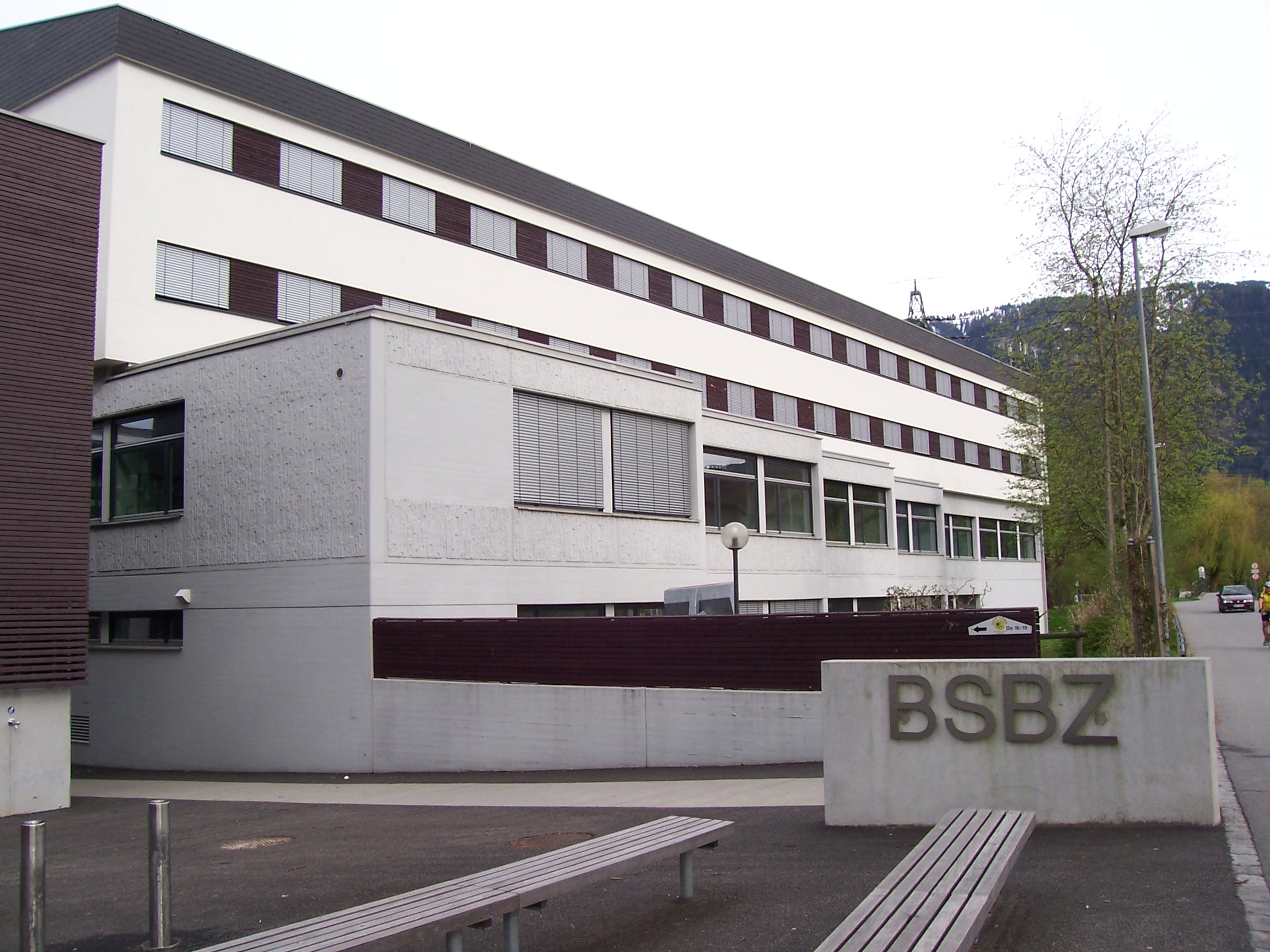 The Bäuerliches Schul- und Bildungszentrum für Vorarlberg in Hohenems (Austria), an agricultural professional school.